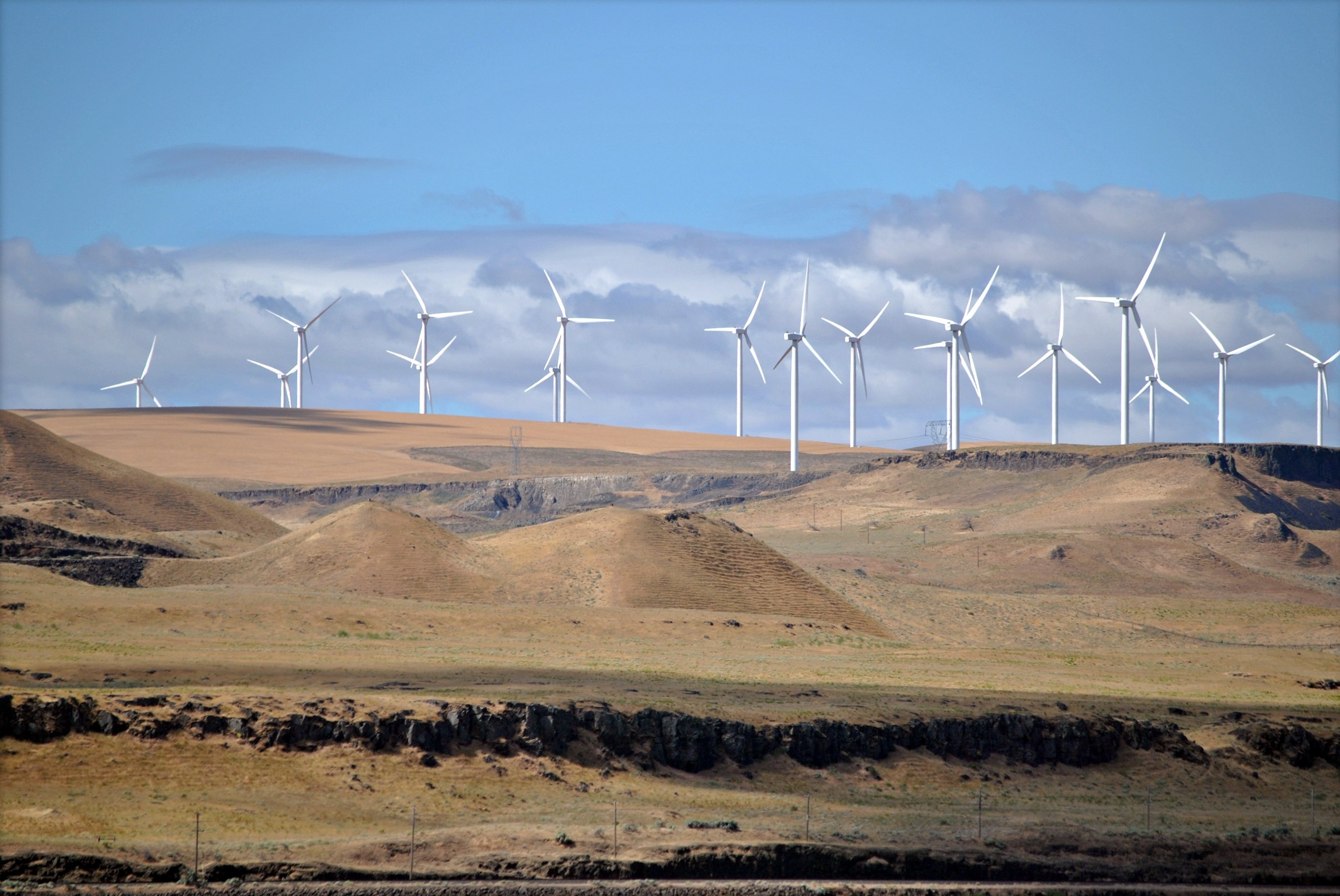 Shepherds Flat Wind Farm, Oregon, USA, seen from the Empire Builder train route.